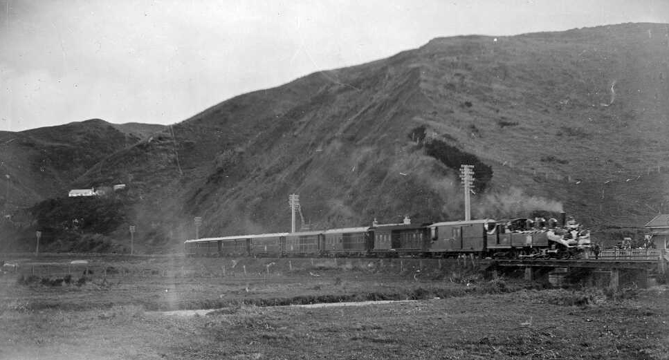 View of the train used for the royal visit of 1920, travelling along the side of a hill, and over a small bridge. Location unknown. Photographed by A P Godber.